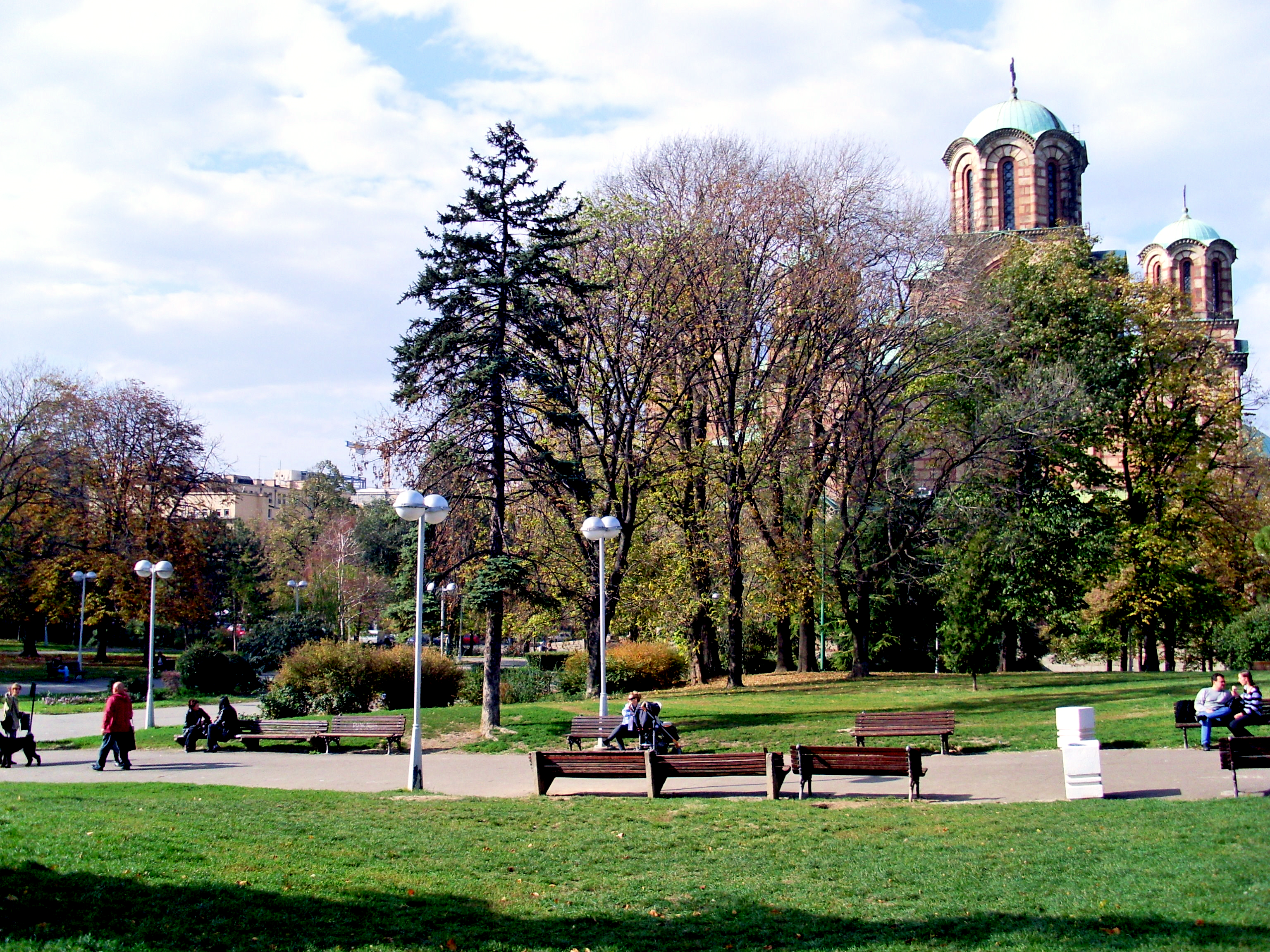 Tasmajdan park with Sv. Marko church in Belgrade